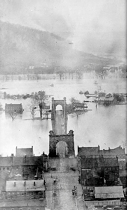 Wheeling Suspension Bridge and flooding Ohio River, photographed 1852. W.C. Brown Collection.